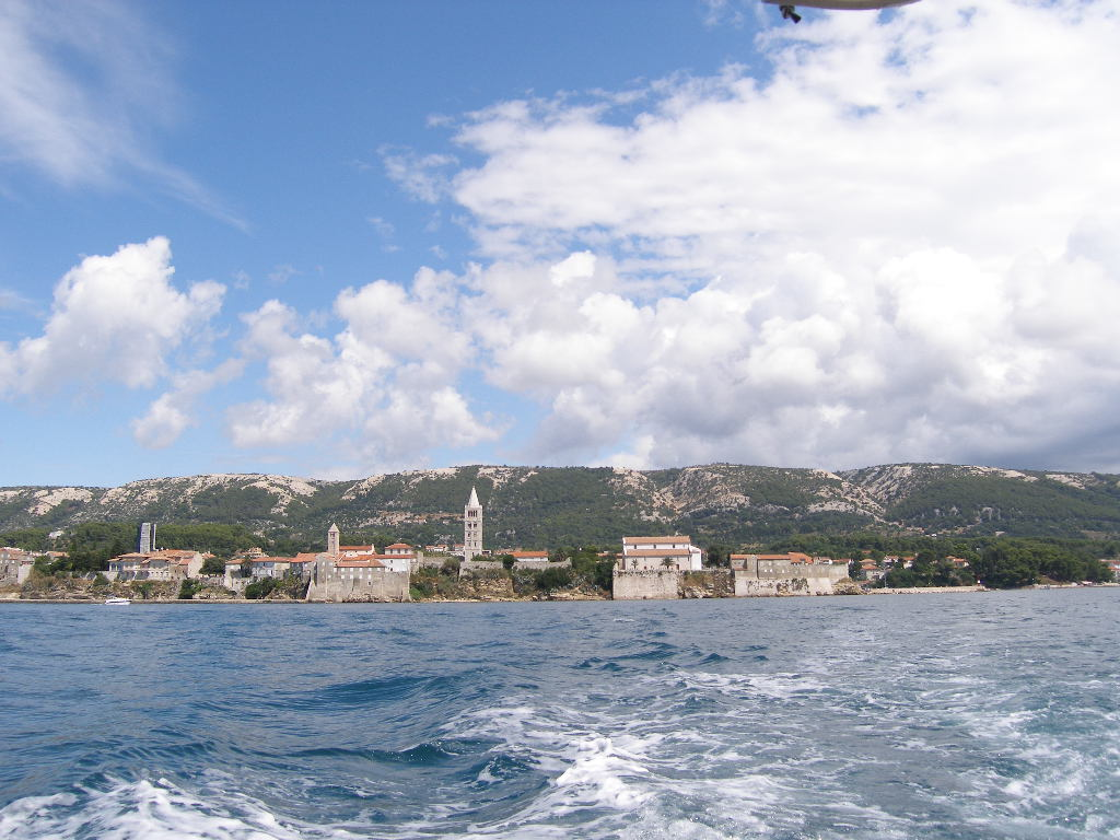 Island of Rab, a view of the town of Rab.